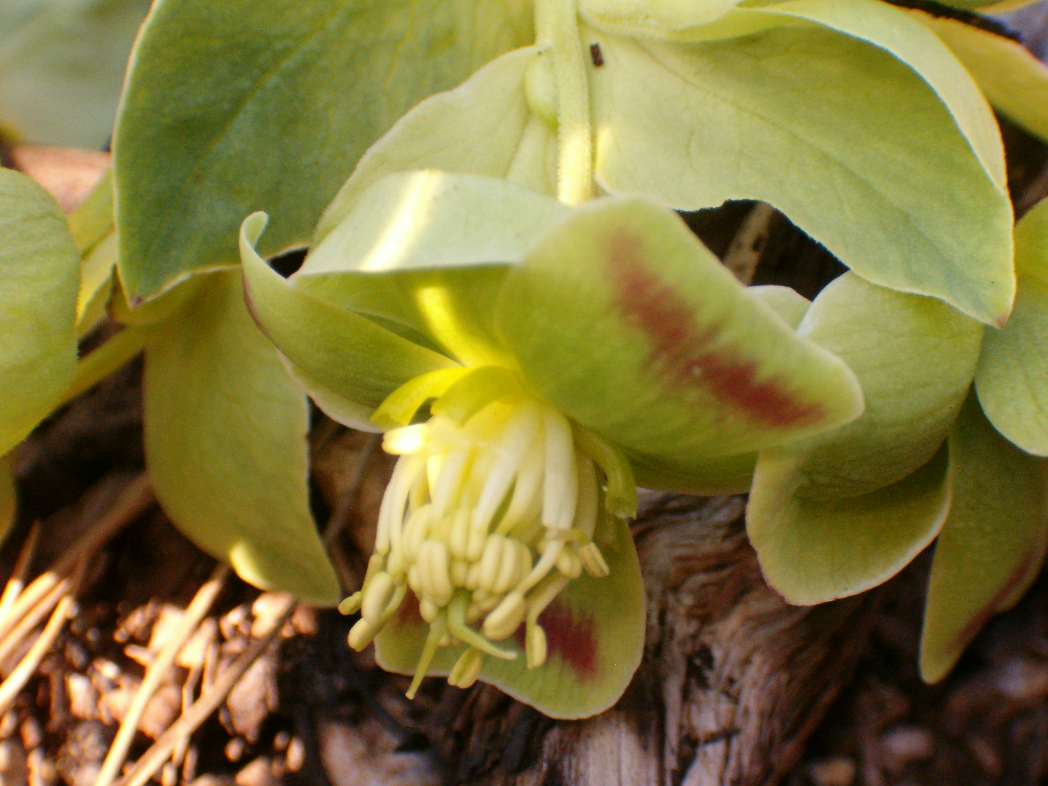 Inside view of a Flower of Helloborus_foetidus (transformed petals) Lauret - Hérault -France 11/02/2006 David Delon